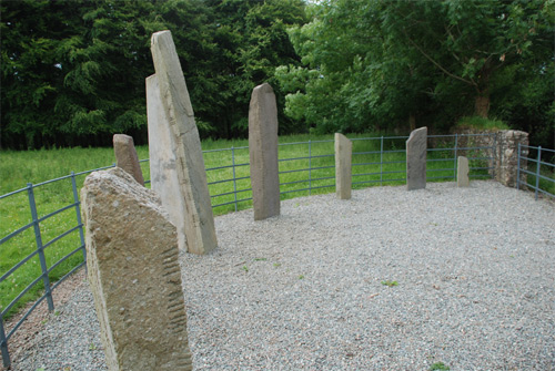 Ogham stones One of a number of groups of Ogham stones sited in different parts of Ireland. This particular group is situated Just outside the village of Beaufort in Co.Kerry. The edges of each stone is etched with various markings and were used as an early form of writing or communication.